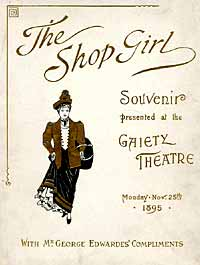 Souvenir from the first anniversary of the opening of The Shop Girl